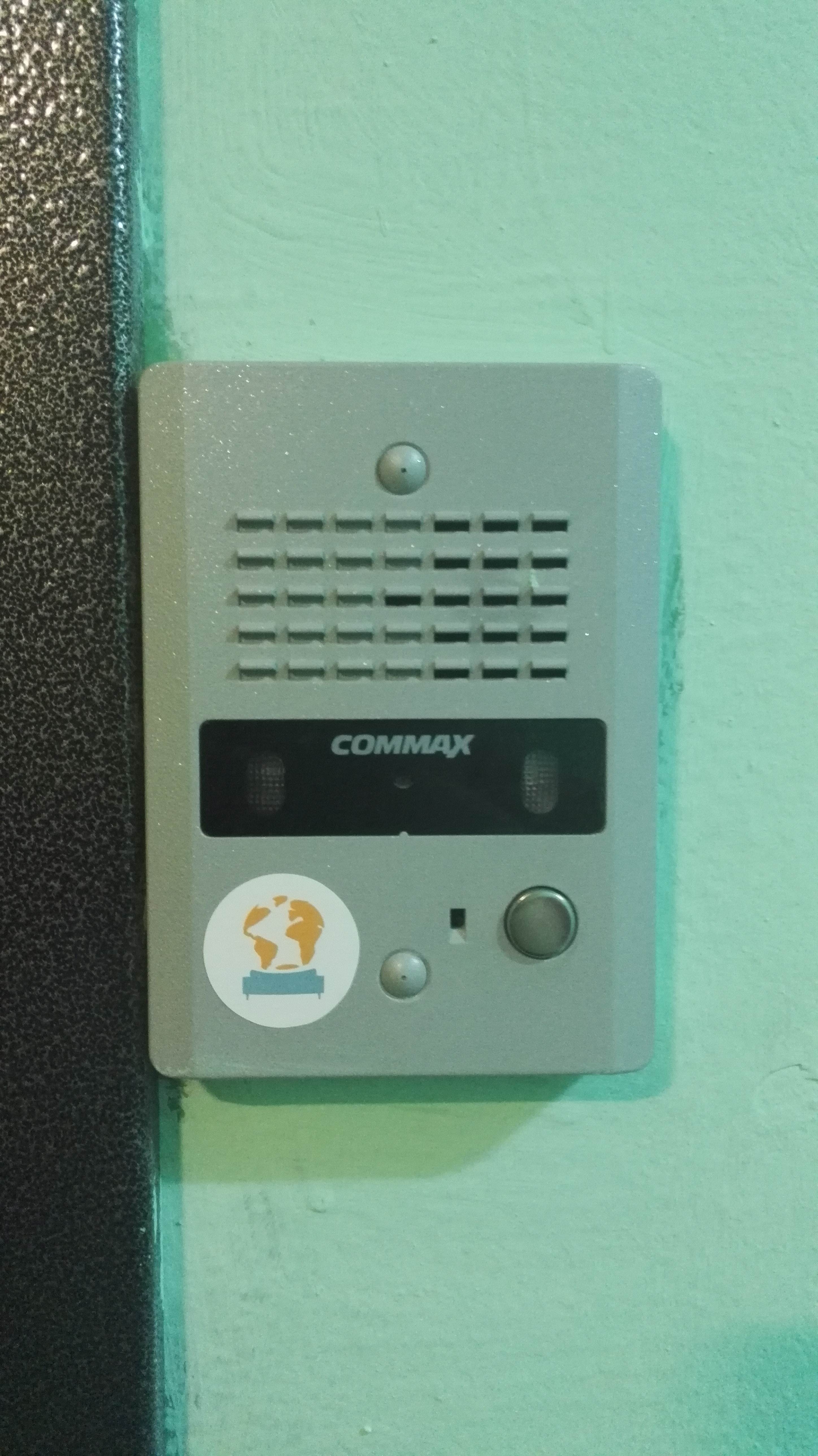 couchsurfing tag